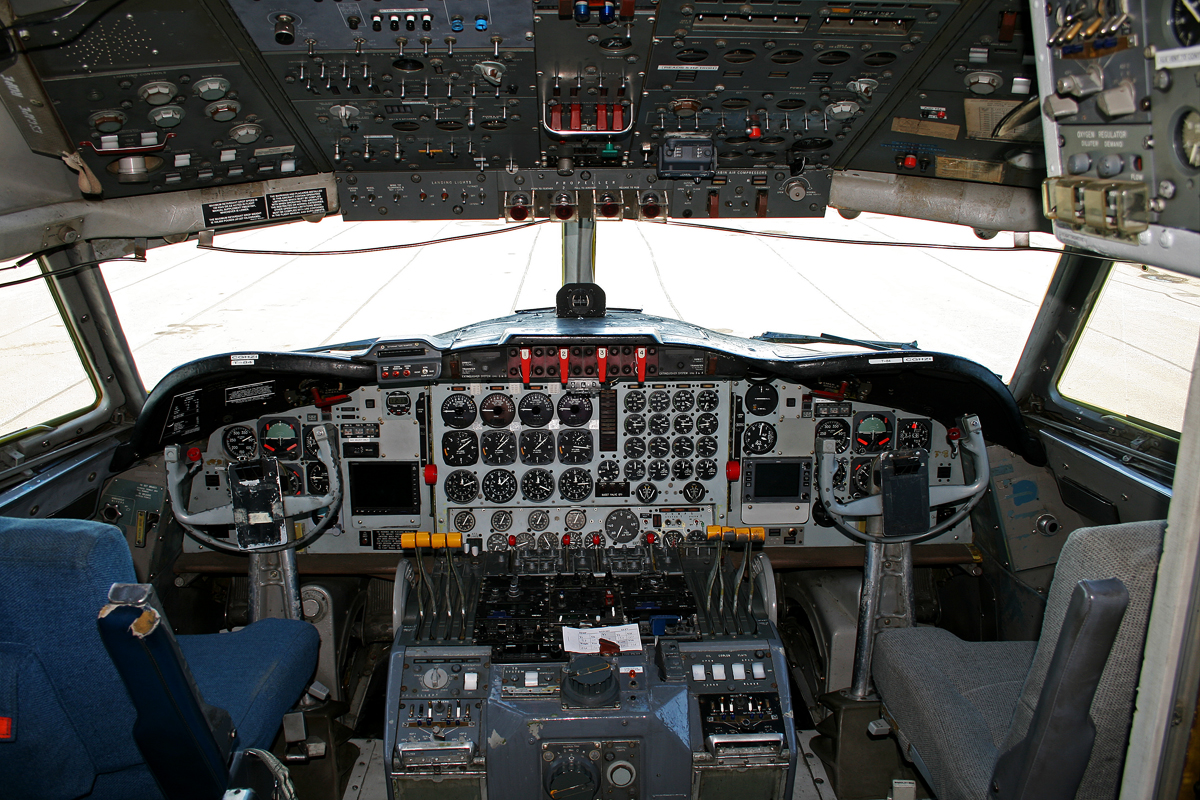 Cockpit of an Air Spray L-188C Electra with Air Tanker modification. A 3000 US-Gal. Bomb-Tank is fitted under the fuselage.